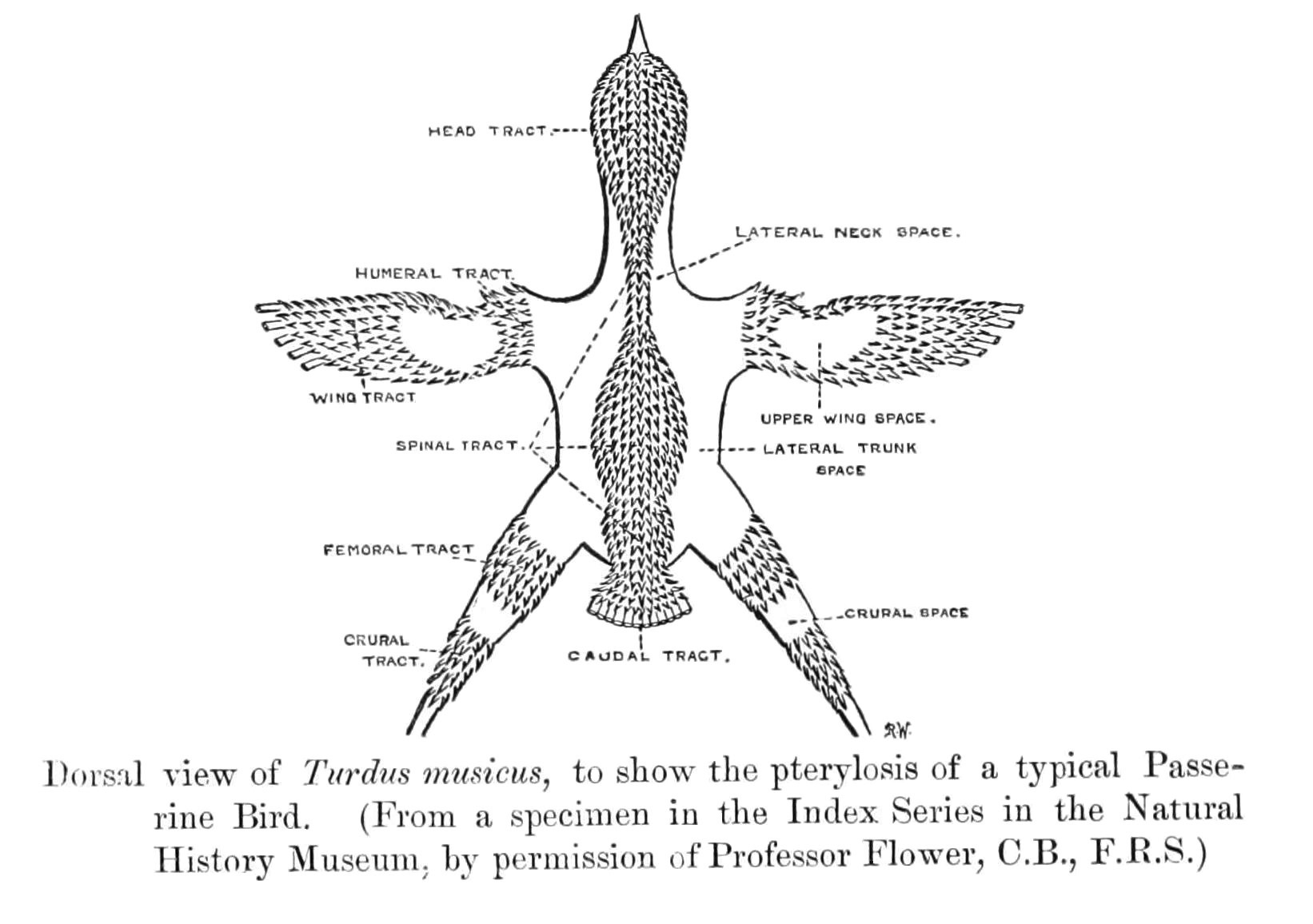 Pterylosis of typical passerines Caption: Dorsal view of Turdus musicus, to show the pterylosis of a typical Passerine Bird. (From a specimen in the Index Series in the Natural History Museum, by permission of Professor Flower, C.B., F.R.S.)